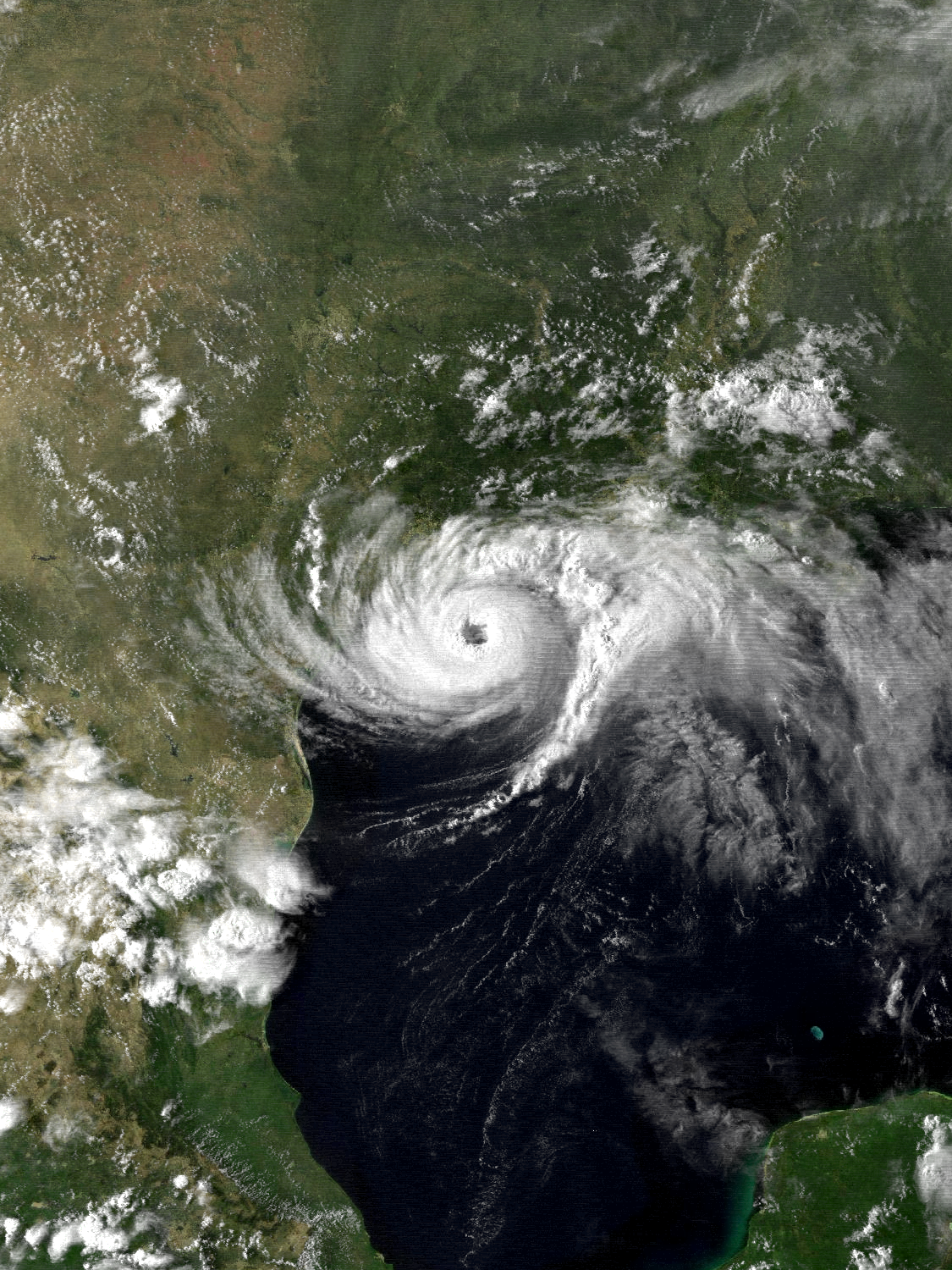 Hurricane Alicia on August 17, 1983